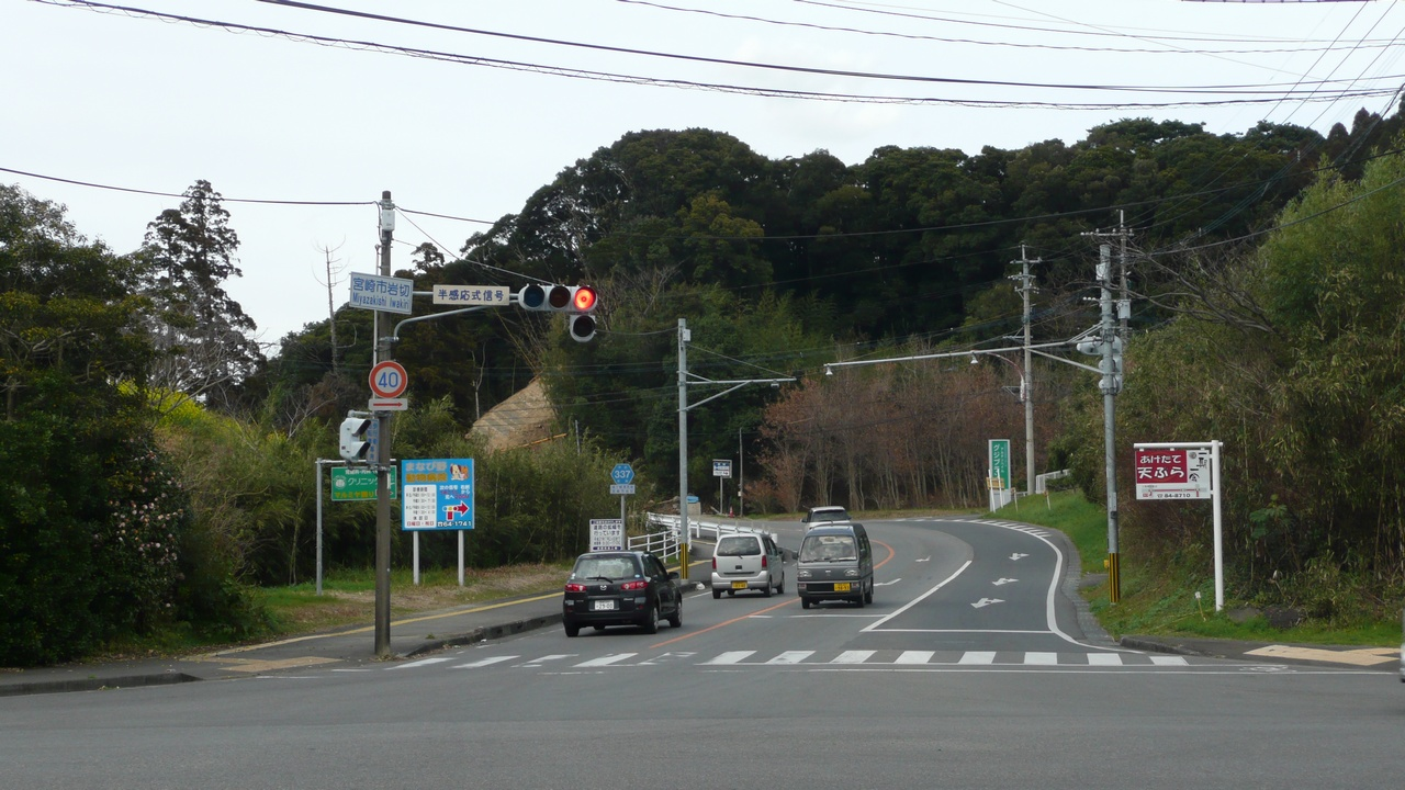 Miyazaki Prefectural Road 337 Ends (Iwakiri, Miyazaki City, Japan)